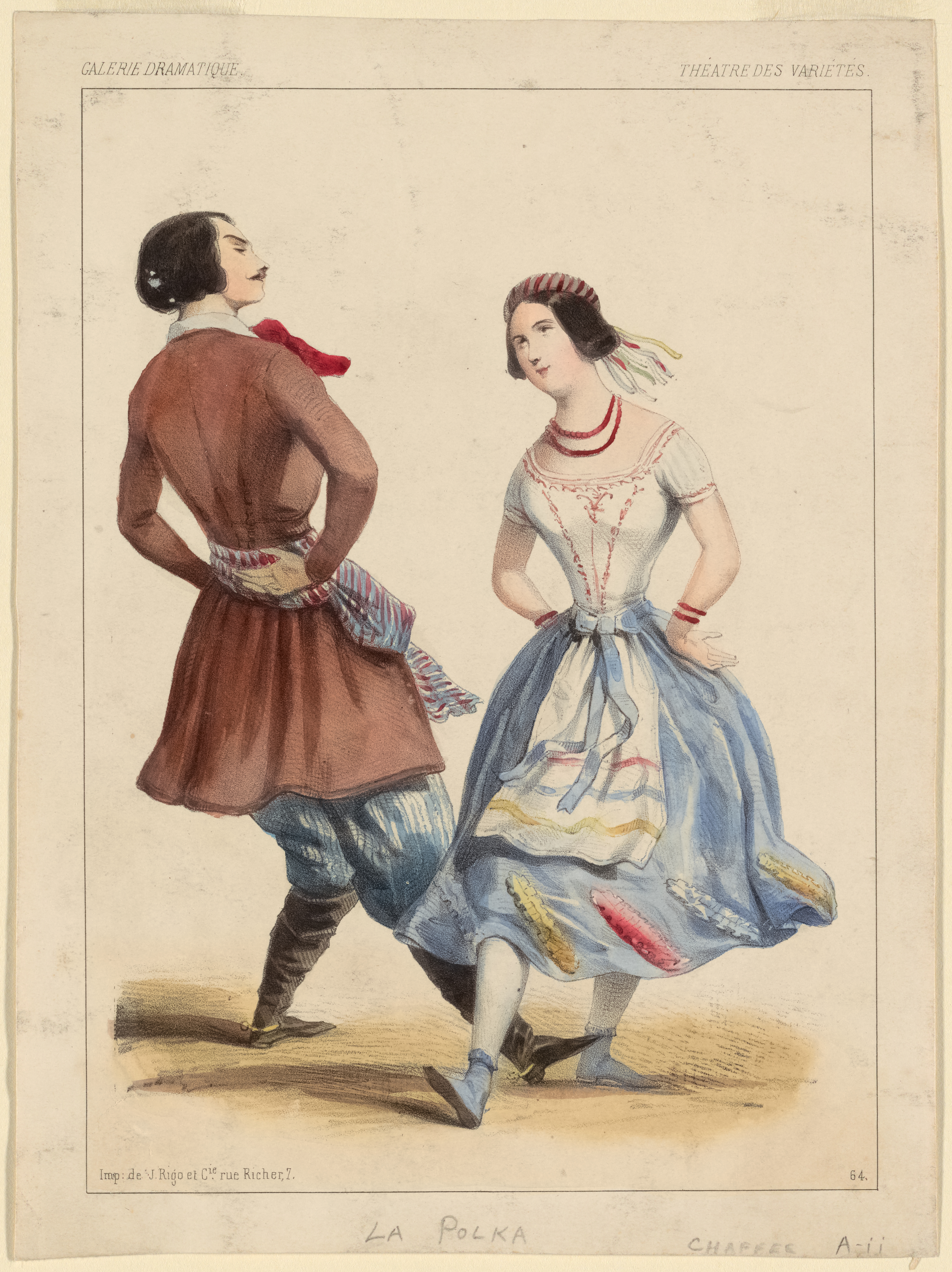 Dates / Origin Date Issued: 1840 - 1849 (Questionable) Place: Paris Publisher: J. Riǵo et Cie Publisher: Maison Martinet, Hautecoeur Frères Topics Théâtre des variétés (Paris, France)